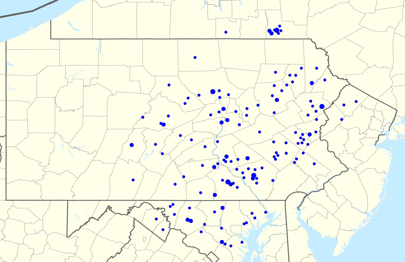 Footprint of Weis Market stores within the United States. Zip codes with more than one branch have progressively larger points.